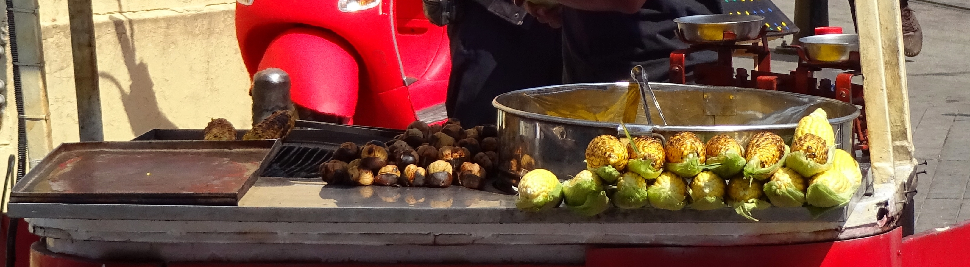 Street vendor with corncobs and chestnuts in Istanbul